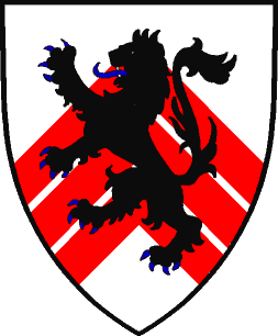 This is the coat of arms used by John Winthrop, Second Governor of the Massachusetts Bay Colony, and his sons. It was confirmed -- presumably by the College of Arms, London, -- to his paternal uncle in 1592.